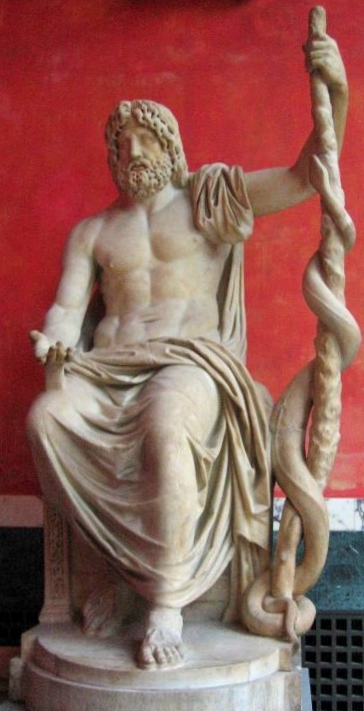 A statue of Asclepius. The Glypotek, Copenhagen.